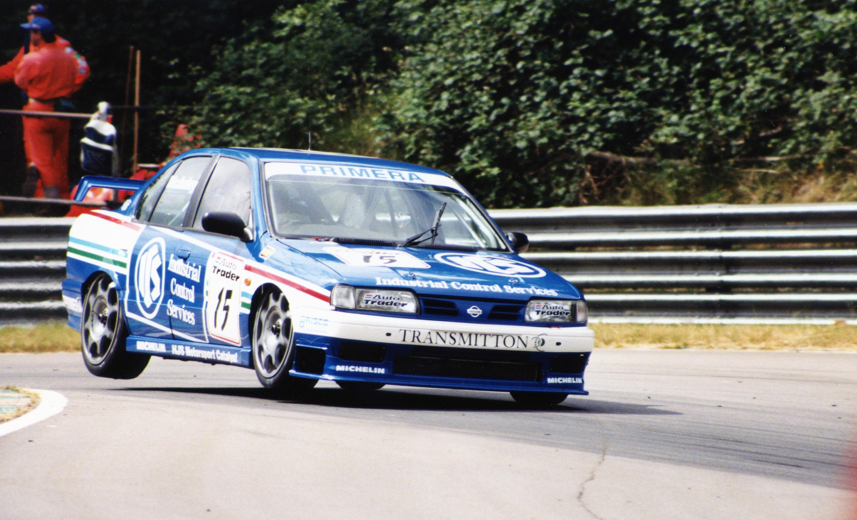 A Nissan Primera P10 at the BTCC Brands Hatch race, 30th June 1996. Driver: Owen McAuley, Team: Rouse Sport